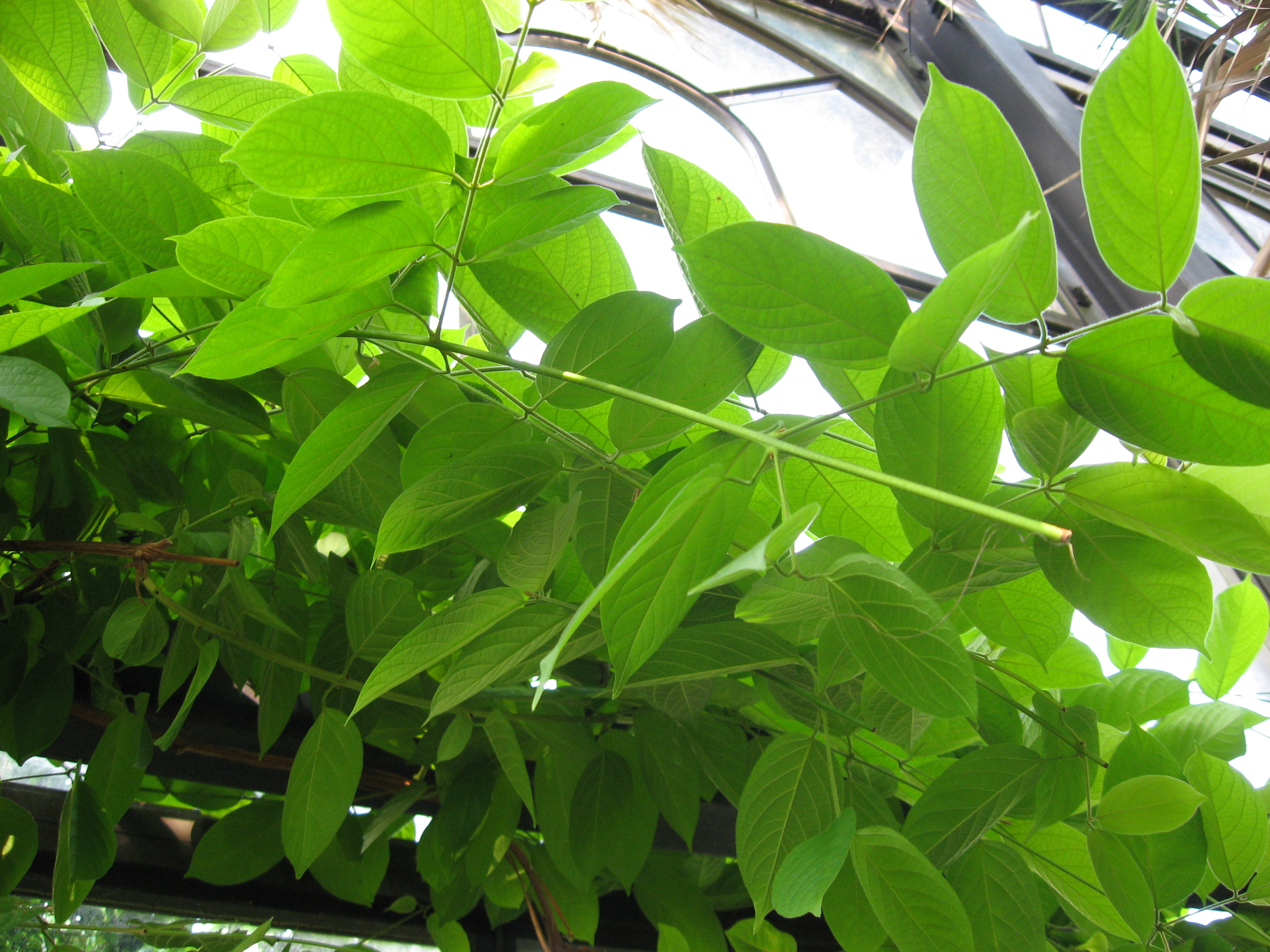 A picture of the leaves of Quisqualis indica.